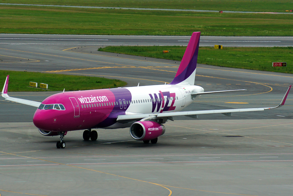 Wizz Air Airbus A320-232 HA-LYN at Warsaw Chopin Airport (EPWA)